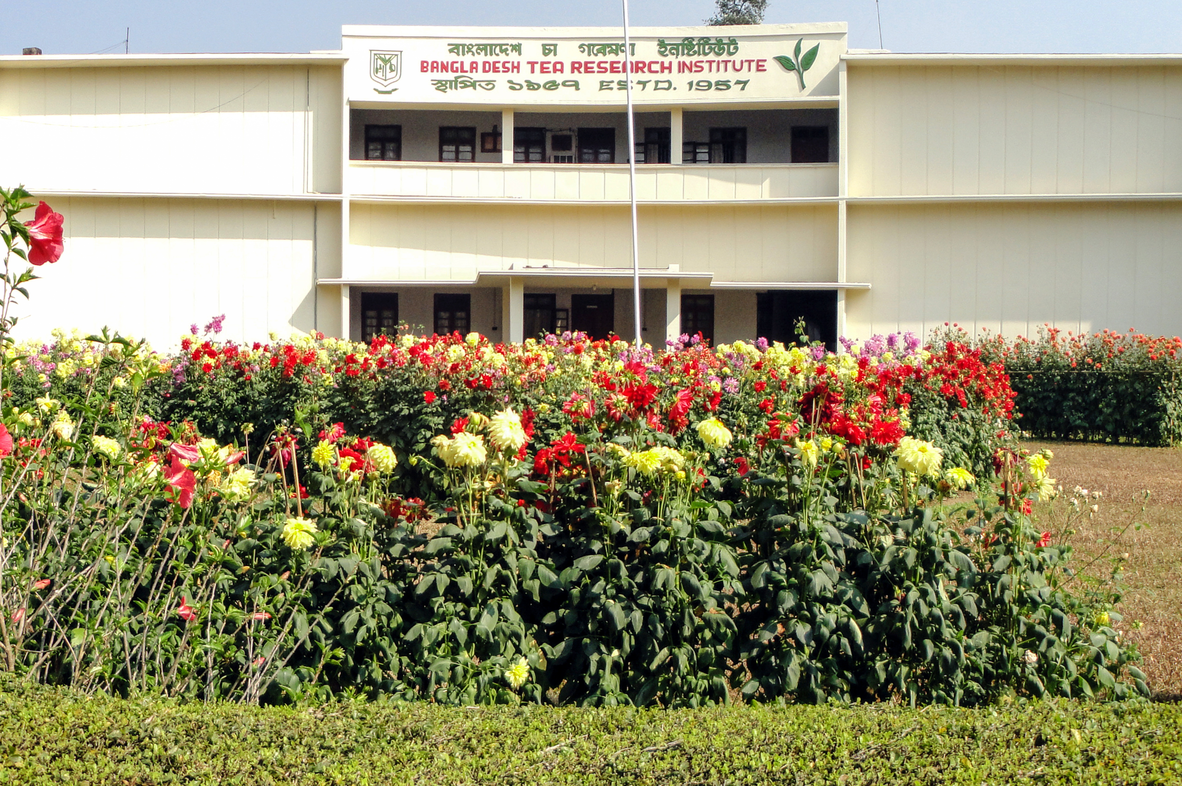 Bangladesh Tea Research Institute, (west exposure, front) Sreemangal, Maulvibazar District, Sylhet, Bangladesh.